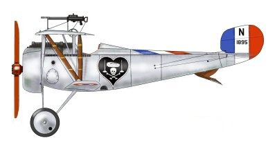 The Nieuport Ni 17 'The Knight of Death' flown by C. Nungesser